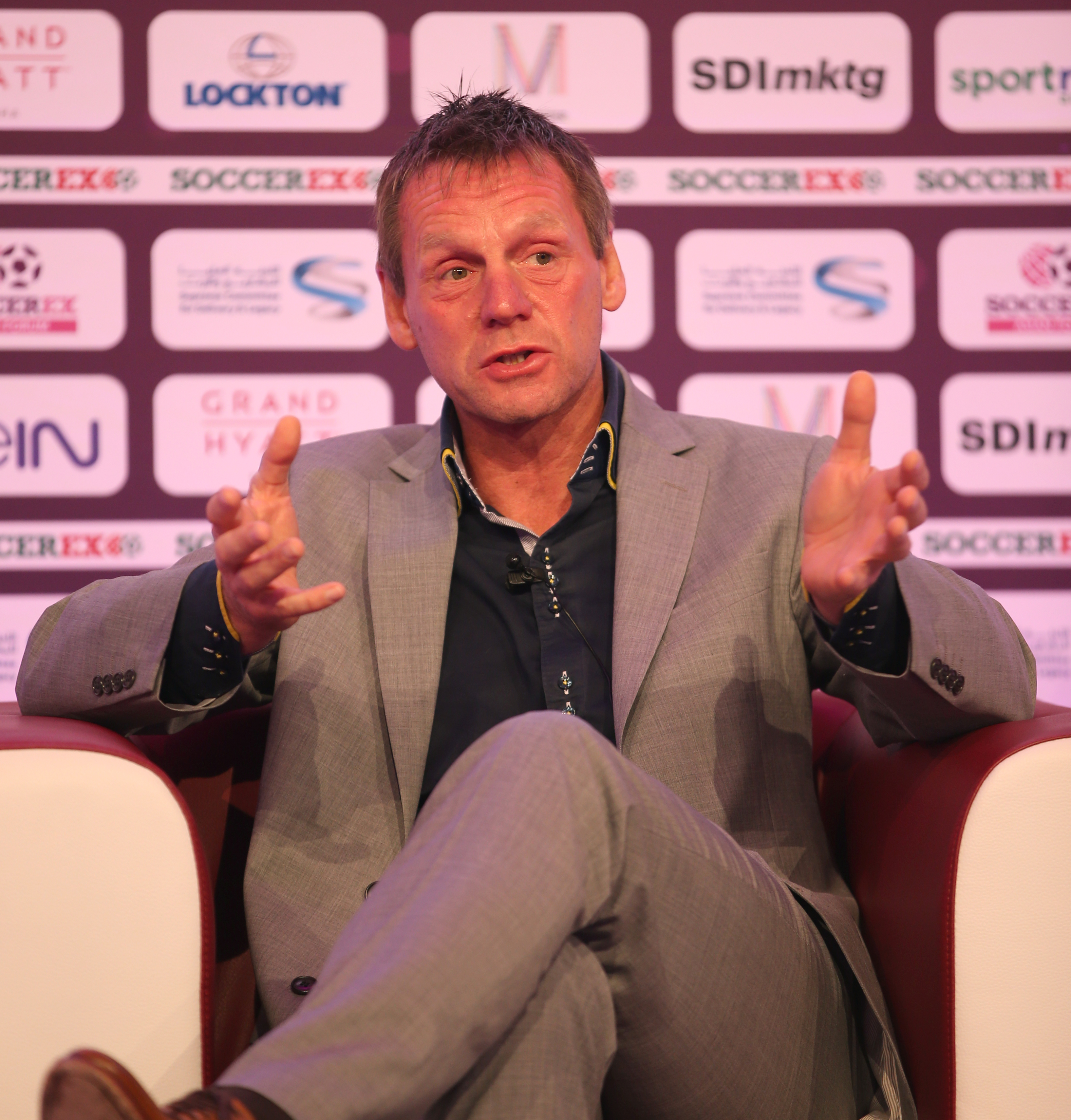 Former England manager Stuart Pearce speaks at an event in Doha. Doha Stadium Plus/K Mohan